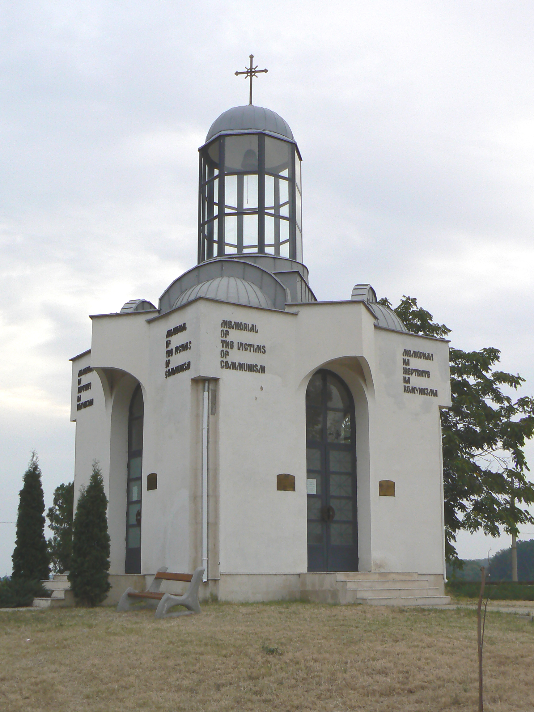 Memorial of the victims of communism in Vidin, Bulgaria